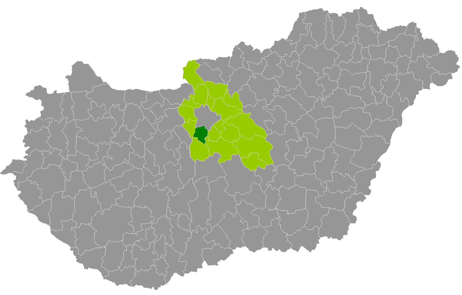 Location of Szigetszentmiklós District, Pest, Hungary